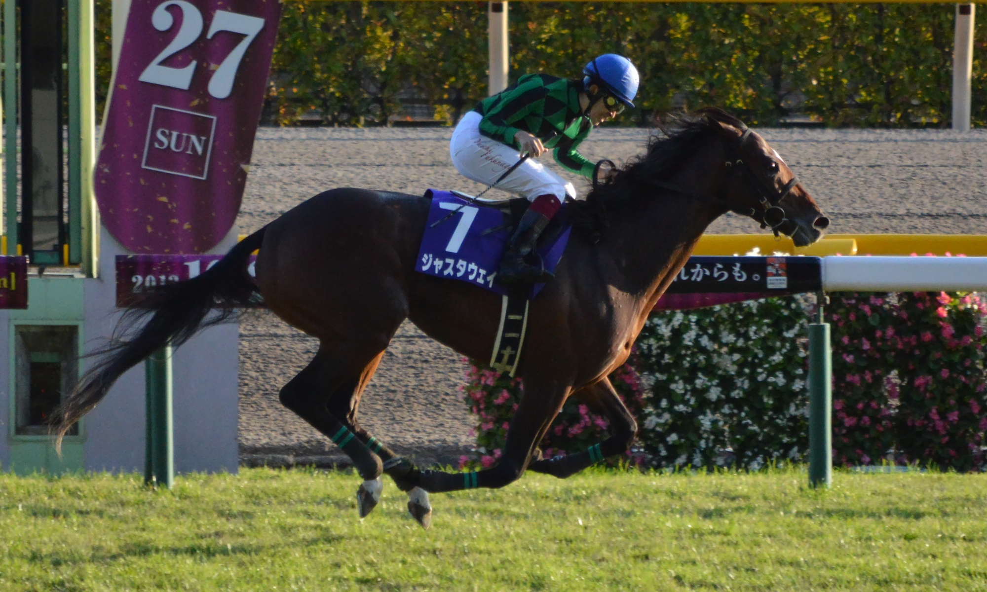 Japanese race horse Just A Way at Tokyo racecourse. Tokyo (JPN) 27 Oct 2013 Tenno Sho (Autumn) (Grade 1) (3yo+) (Turf) 1m2f Firm RankHorse NameOddsAgeWgtTrainerJockey1stJust A Way (JPN)145/10C49-2Naosuke SugaiYuichi Fukunaga2ndGentildonna (JPN)EvensFF48-11Sei IshizakaYasunari Iwata3rdEishin Flash (JPN)37/10H69-2Hideaki FujiwaraMirco Demuro4th - 18th/omission